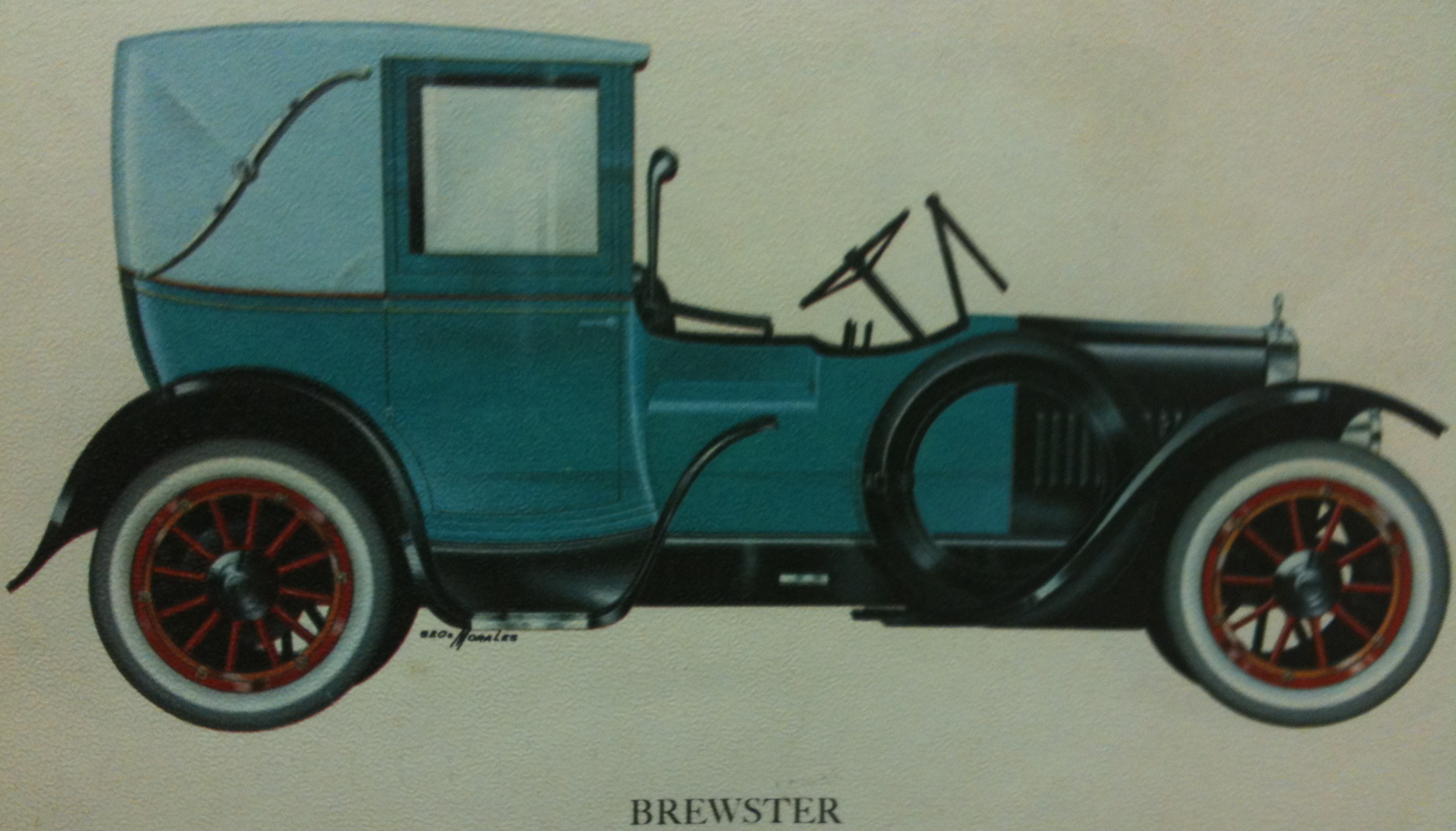 1920 Brewster Town car drawing from an old calendar. Other information From an old cut up calendar around 1920. No printing company name or copyright date is visible.